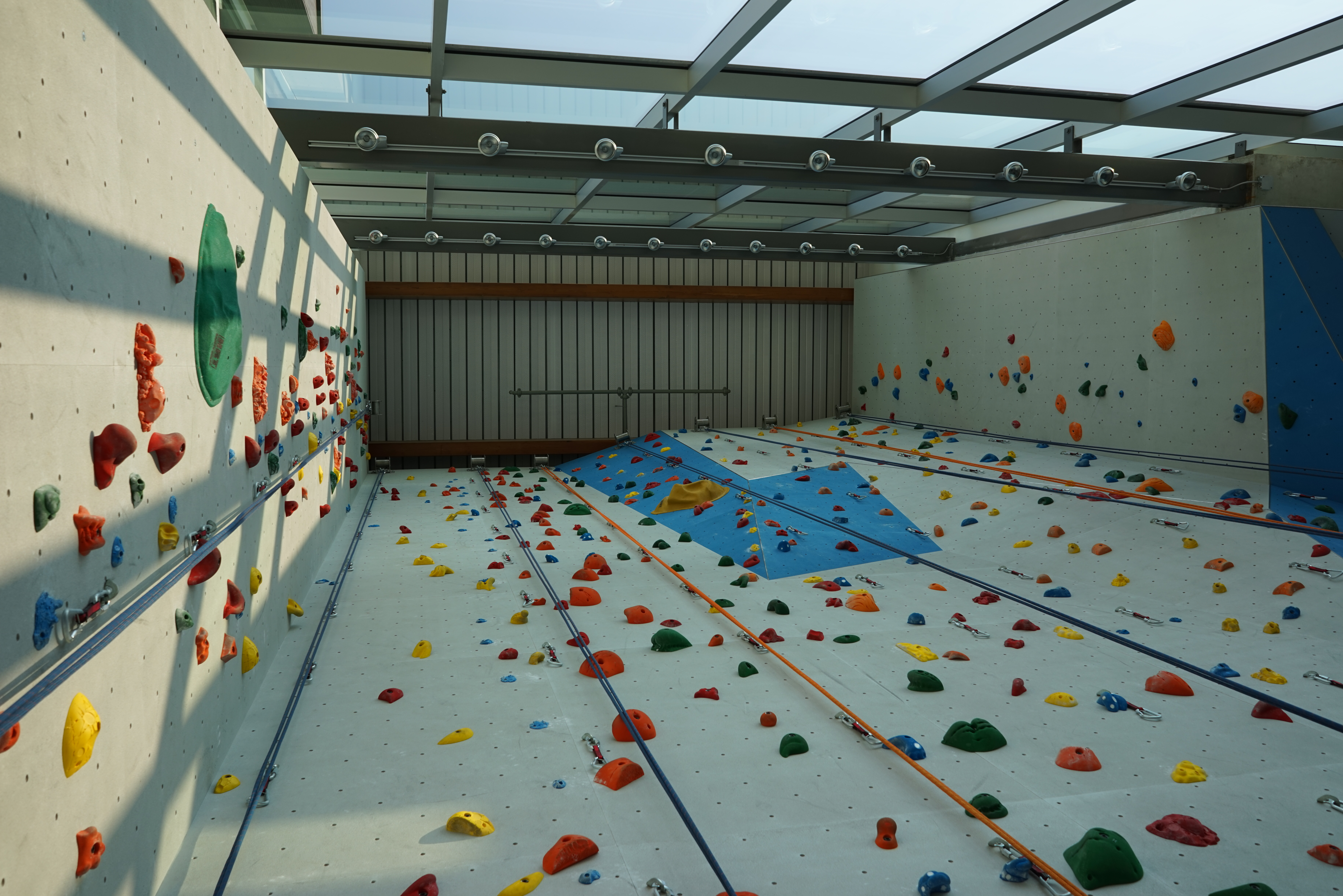 Indoor climbing room in the Student Union Building at the University of British Columbia in Vancouver, BC. The new Student Union Building was opened in summer 2015. The climbing wall is around 12 m tall.